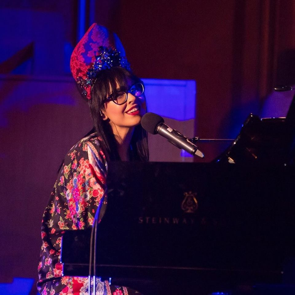 Alexandrina in concert, Sala Radio Bucharest